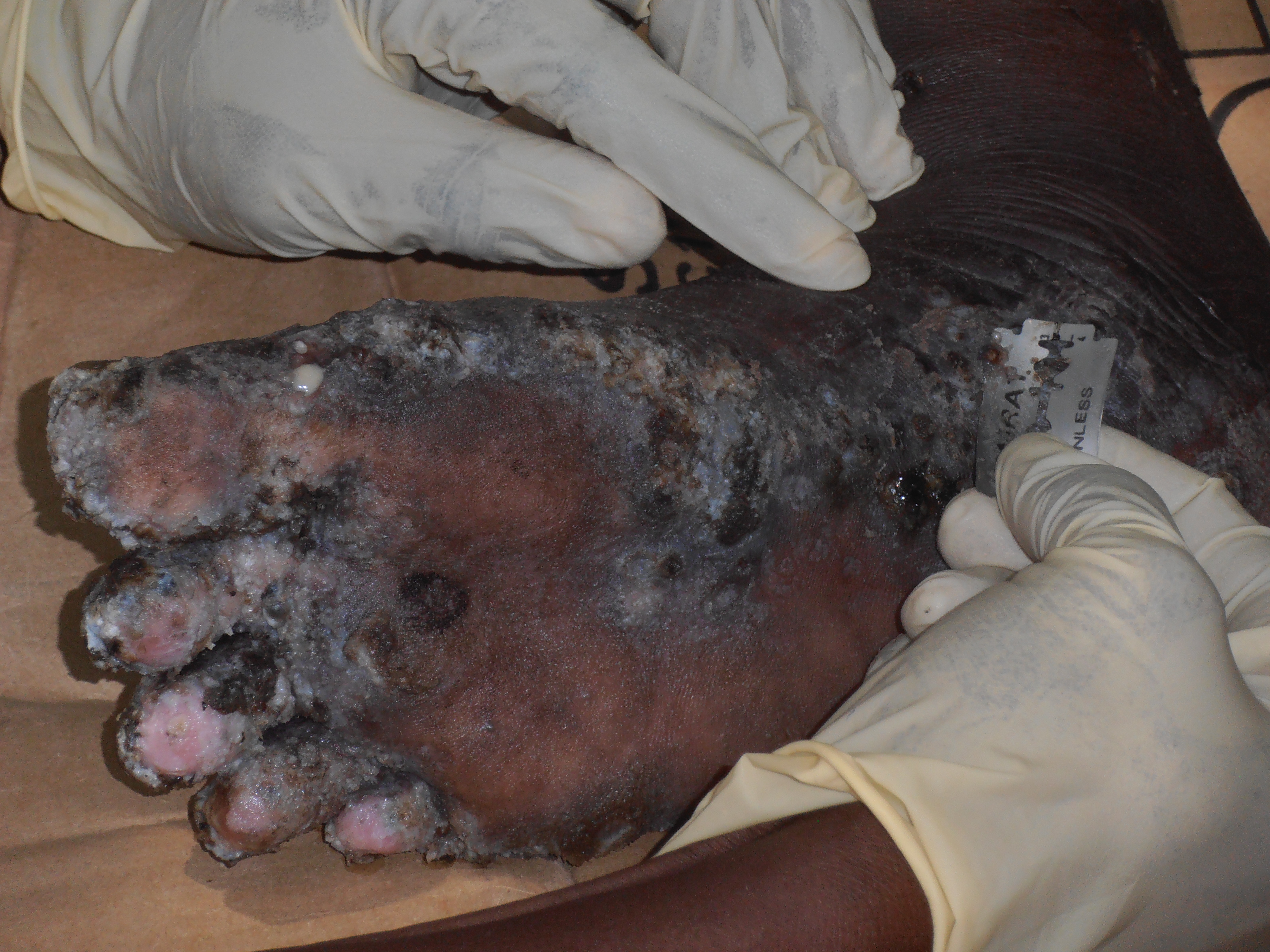 Jigger (Chigoe flea) infested foot - treatment at 'Coast Jigger Campaign 2013', Kenya